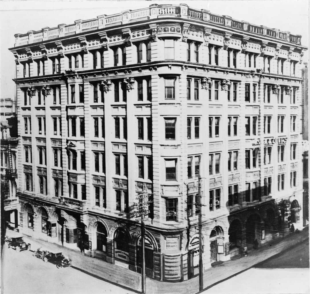 Joseph Nathan & Co building, Featherston St, Wellington Exterior view taken from Featherston Street. The building was opened in 1907 and was situated on the corner of Featherston and Grey Streets.